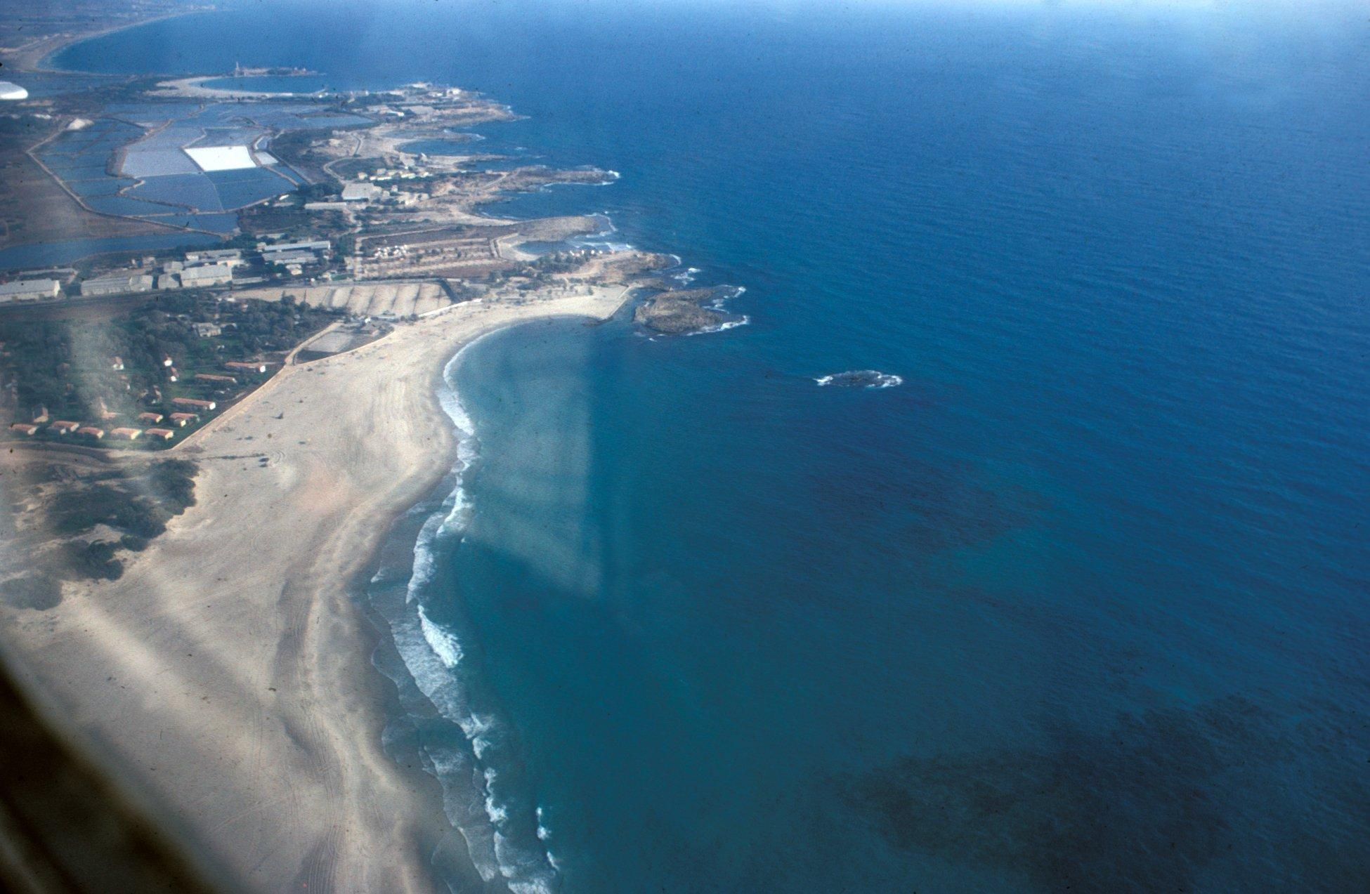 Newe Yam, Atlit Bay , Geography of Israel